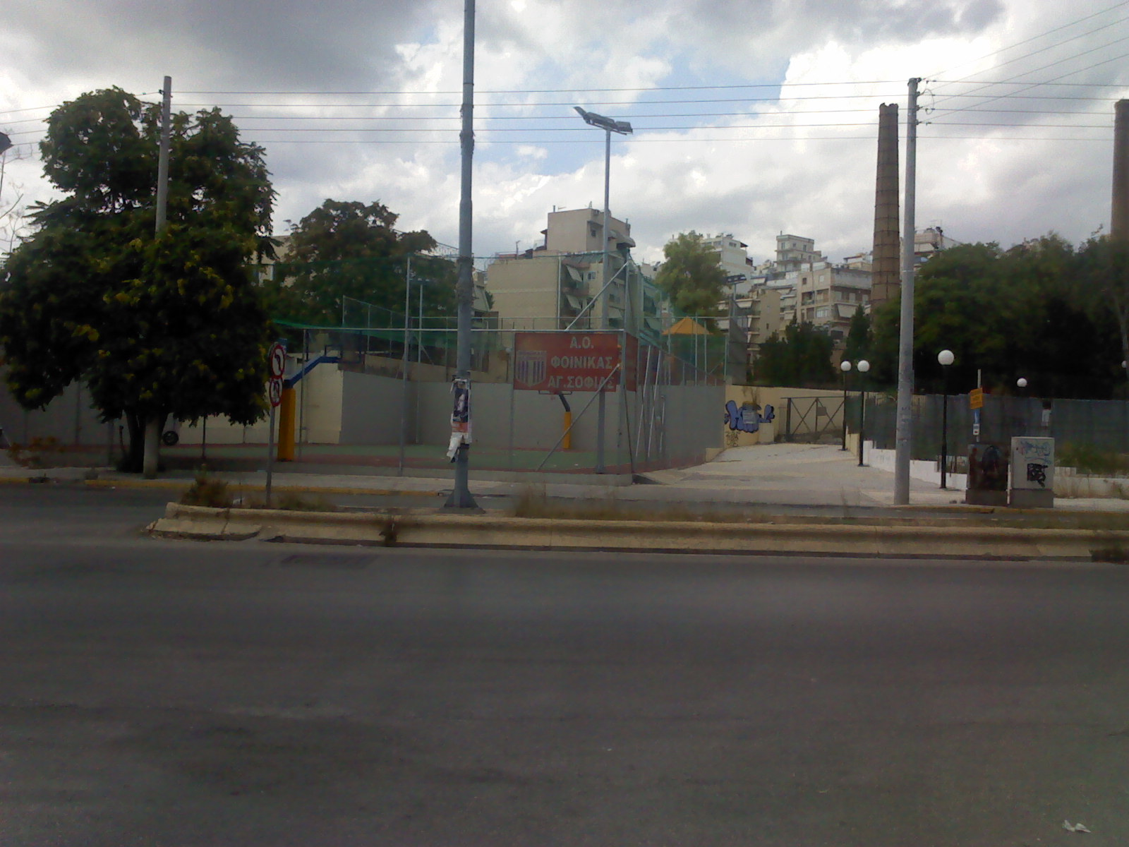 Square Dilaberi Palaia Kokkinia